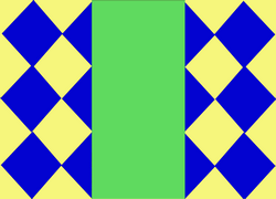 Flag of l' island d' Oléron